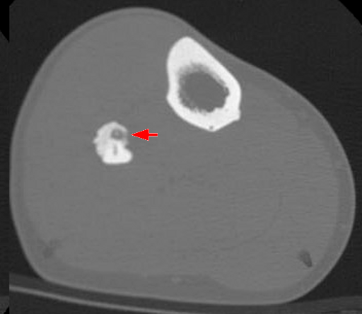 Osteoid osteoma of the fibula in computed tomography (bone window). The nidus is clearly visible. (The small point dorsally in the tibia is not an OO, but a vessel canal, which is typical at this point.)